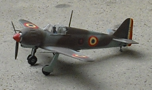 Model of the Bloch MB 152